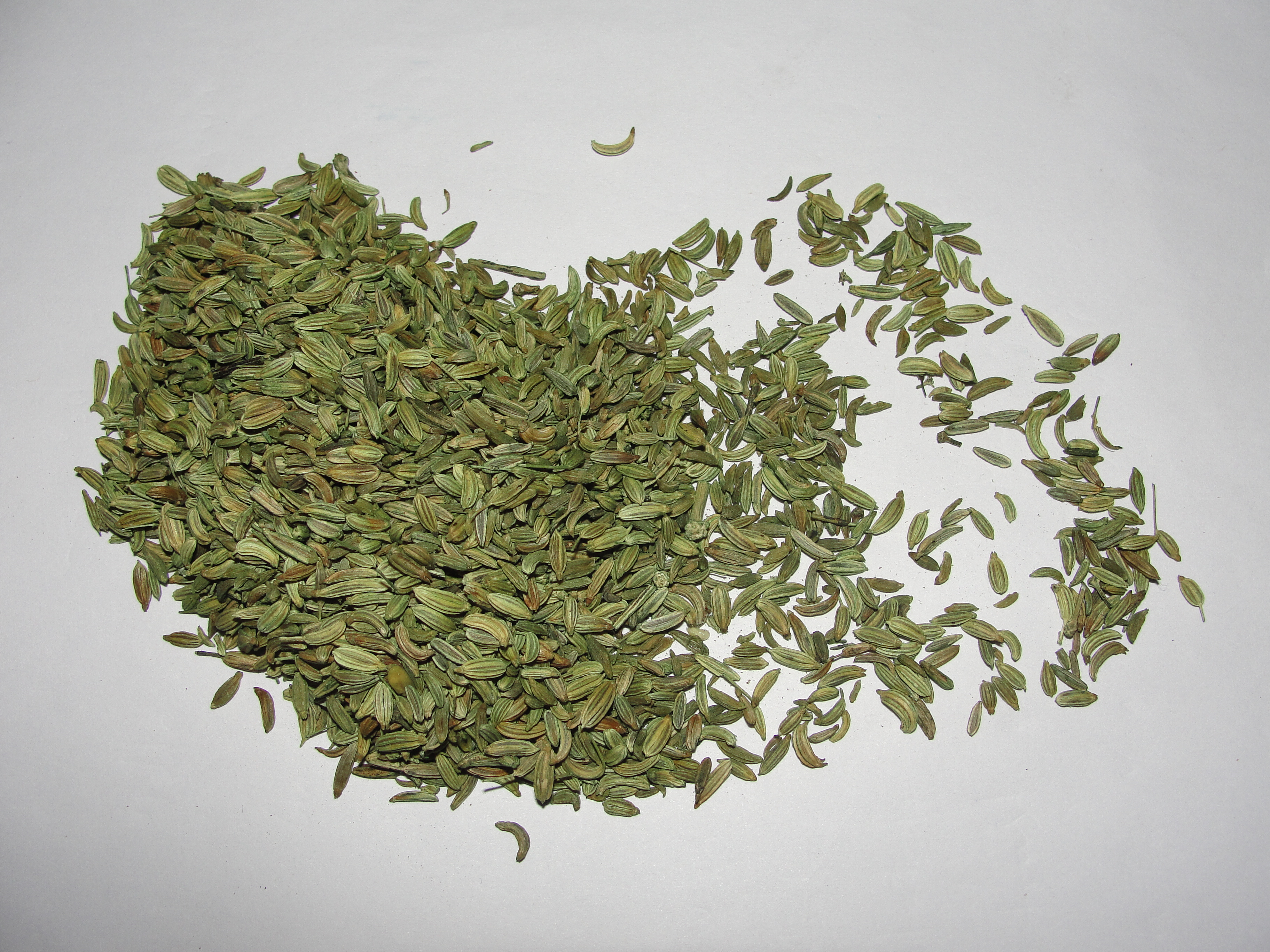 cumin